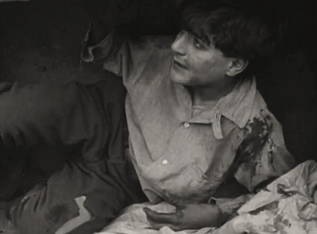 Cyril Gardner in The Drummer of the 8th - cropped screenshot